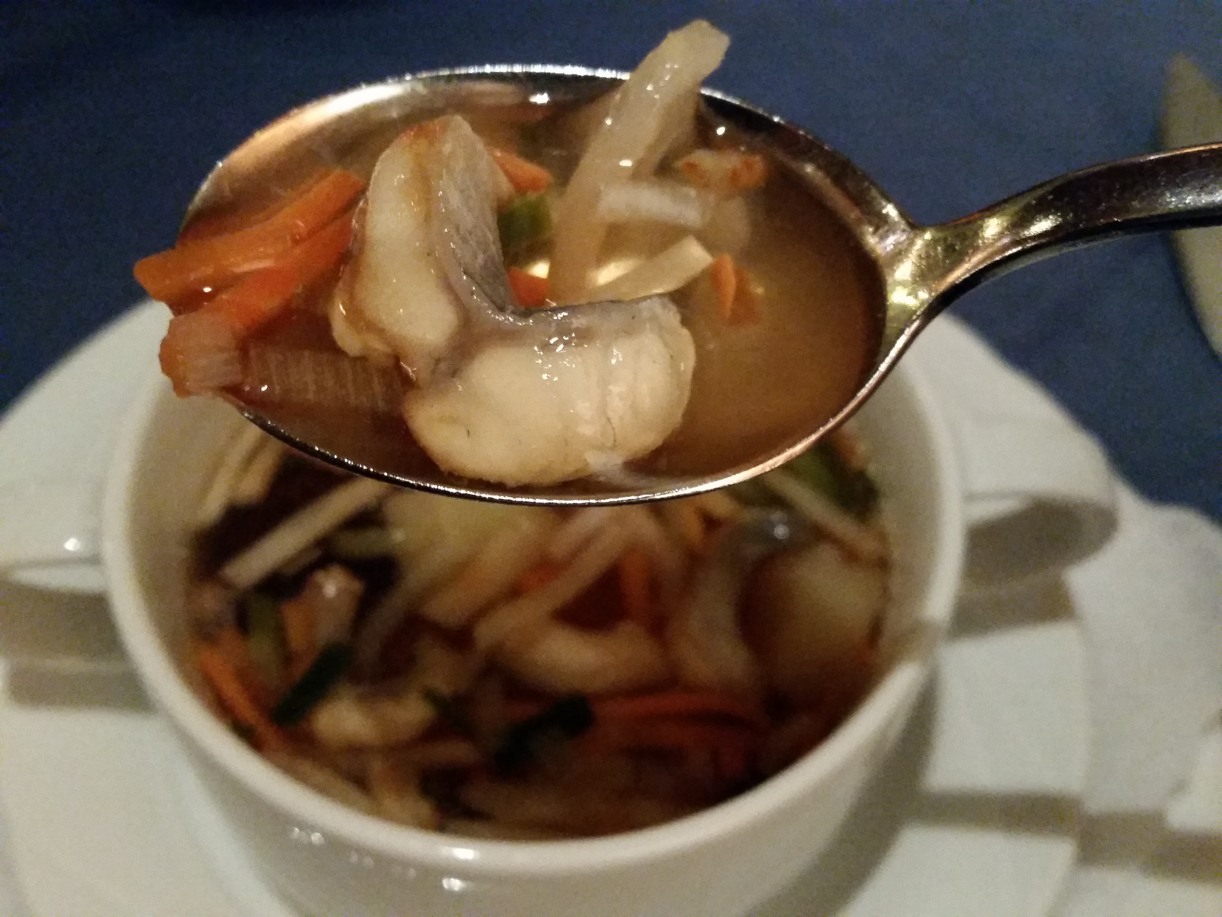 Hamburger Aalsuppe by Alt Helgoländer Fischerstube, Hamburg-Altona